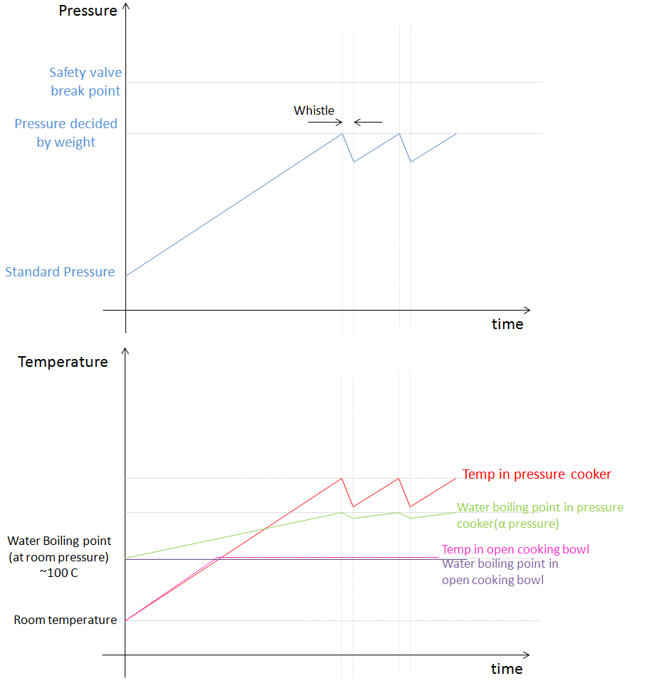 Pressure & Temperature in Pressure Cooker as compared to open cooking bowl